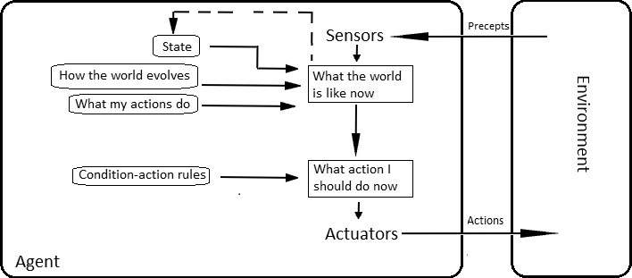 A model-based reflect agent.